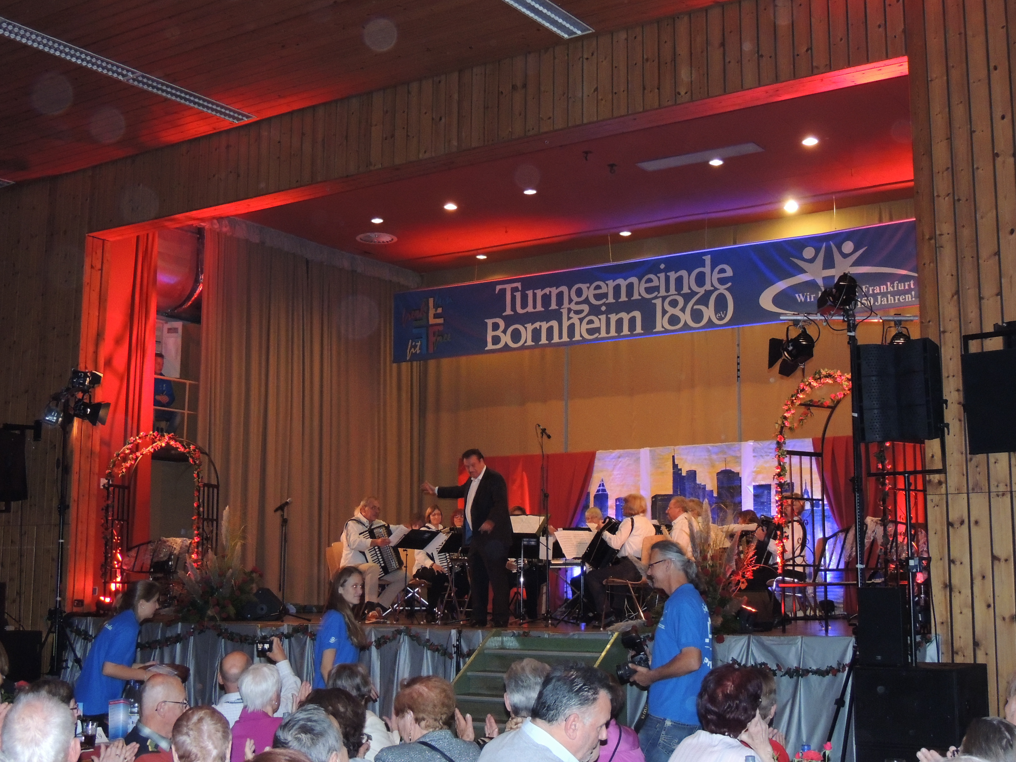 Club Party "Lerchenherbst" (larks autumn) in the gymnasium of the Turngemeinde Bornheim in the Falltor Street in Frankfurt am Main-Bornheim